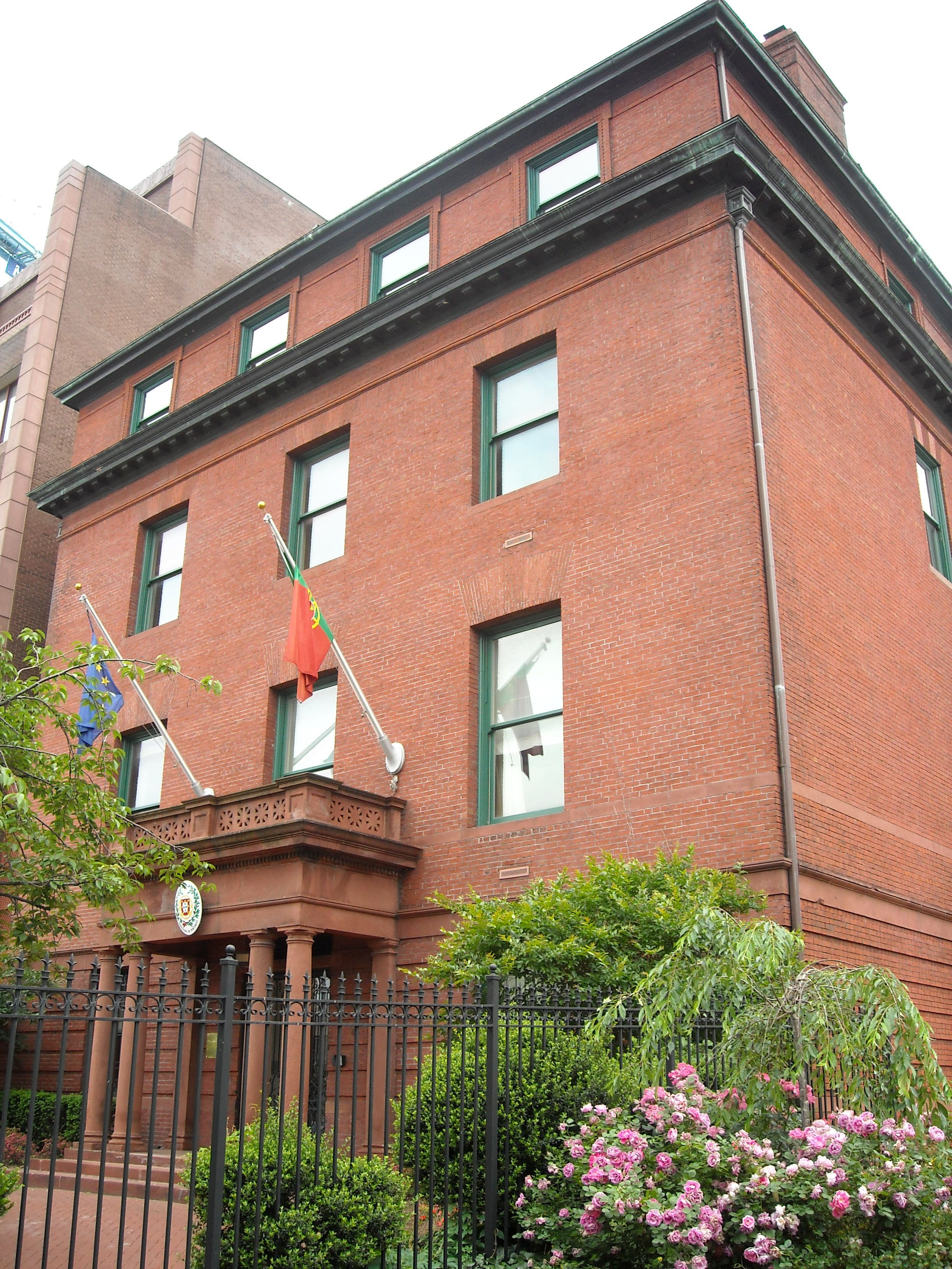 The Embassy of Portugal is located at 2012 Massachusetts Avenue NW in the Dupont Circle neighborhood of Washington, D.C. Built in 1897 for Joseph Beale, the Renaissance Revival house was designed by Glenn Brown. The building is a contributing property to the Dupont Circle Historic District and Massachusetts Avenue Historic District. It was the first of two houses Brown designed for Beale on Massachusetts Avenue, the other being the Joseph Beale House (currently the residence of the Egyptian ambassador), constructed in 1909.